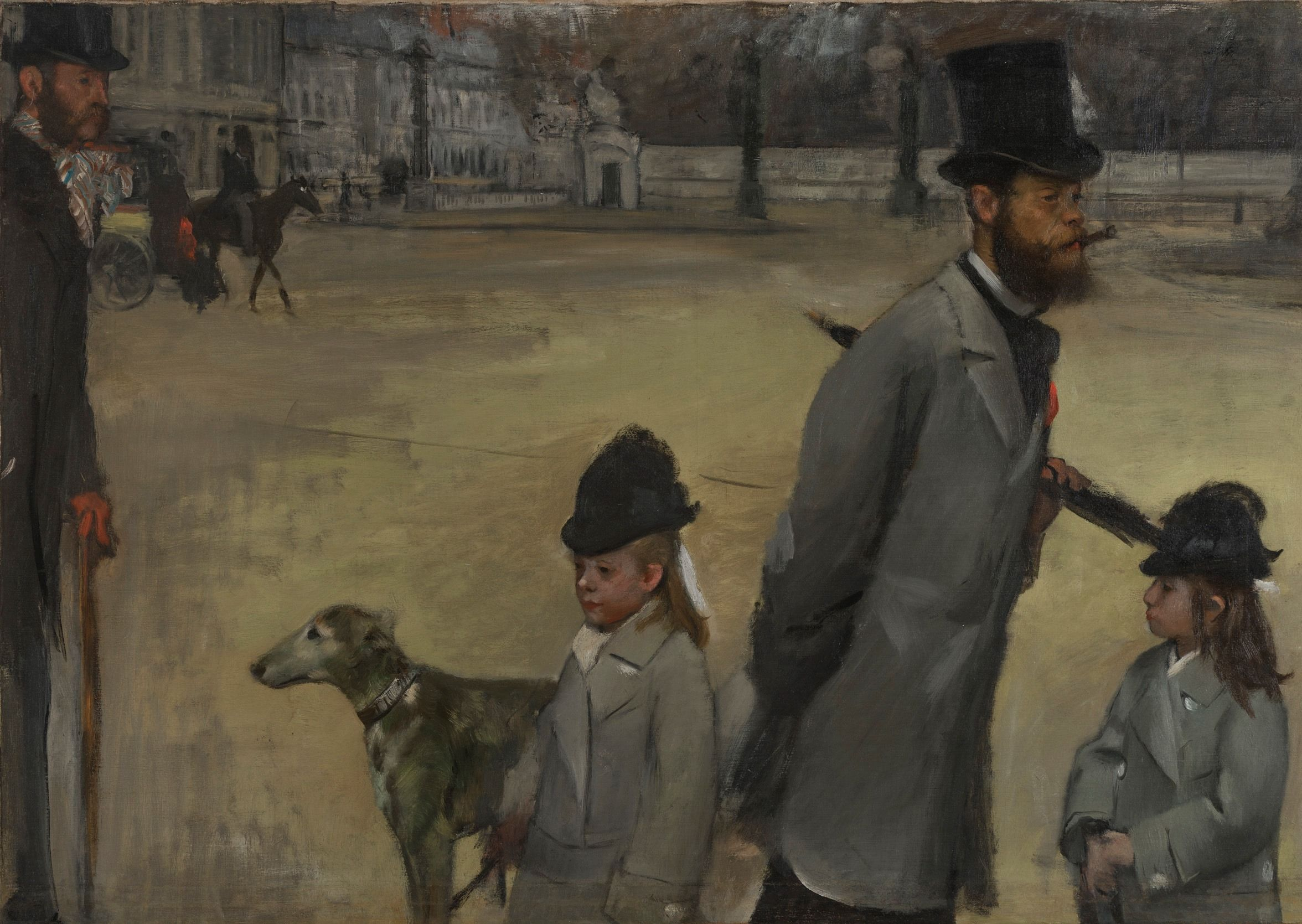 Info at Hermitage Museum